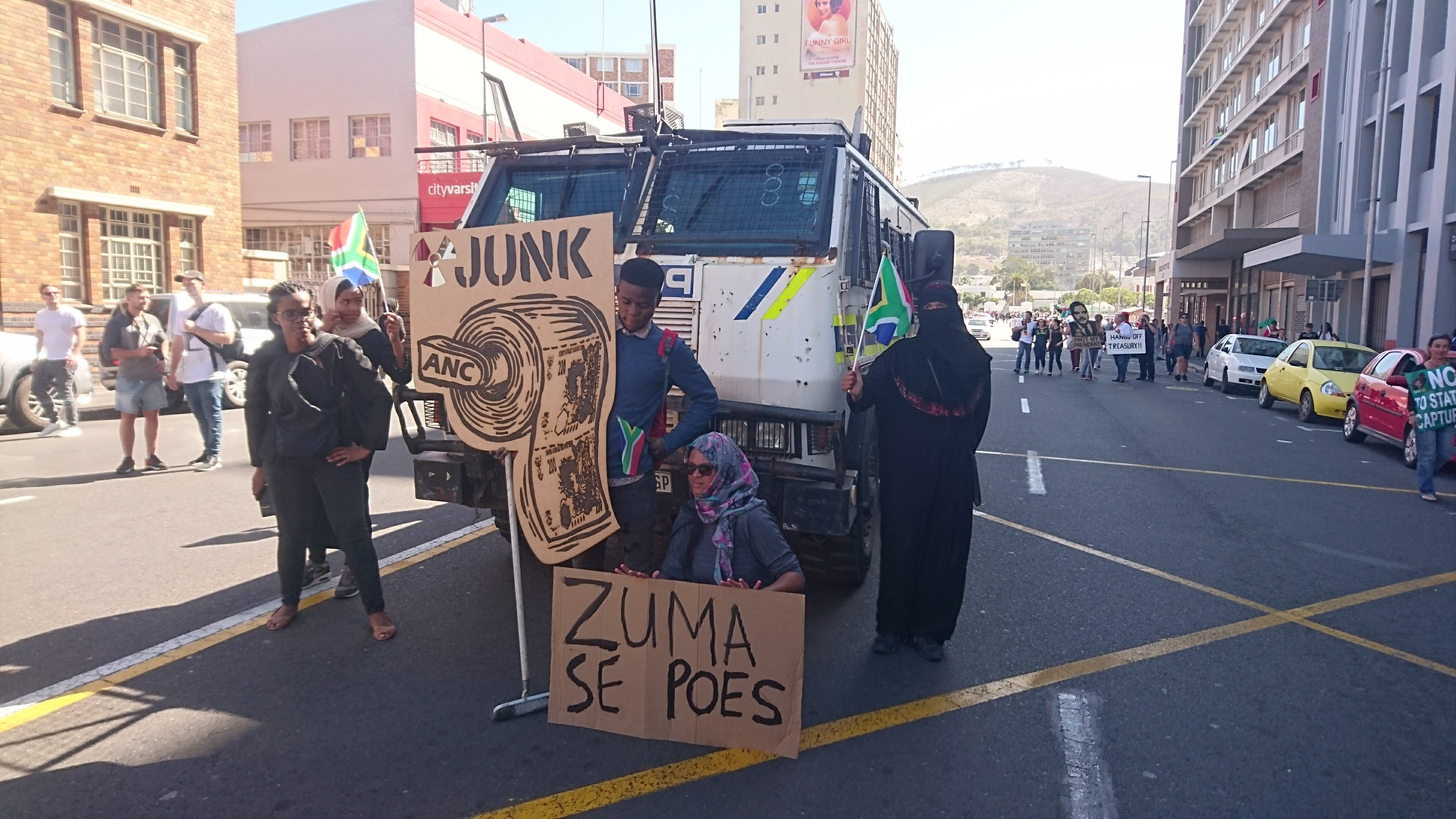 Anti-Zuma protestors in Cape Town. The signs complain of the junk status that South African debt became valued at during the Zuma presidency. The term "se poes" is a slang insult in Cape Town used in this case to express the protesters dislike of then President Zuma.